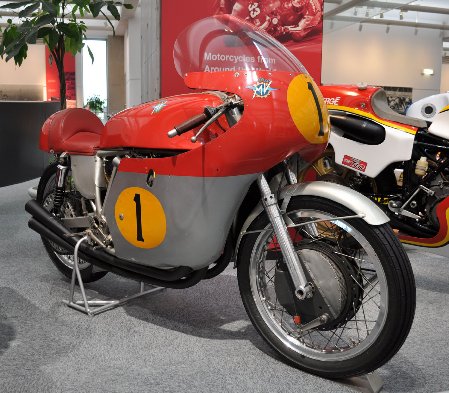 MV Agusta 500-4 (Mike Hailwood, 1965)